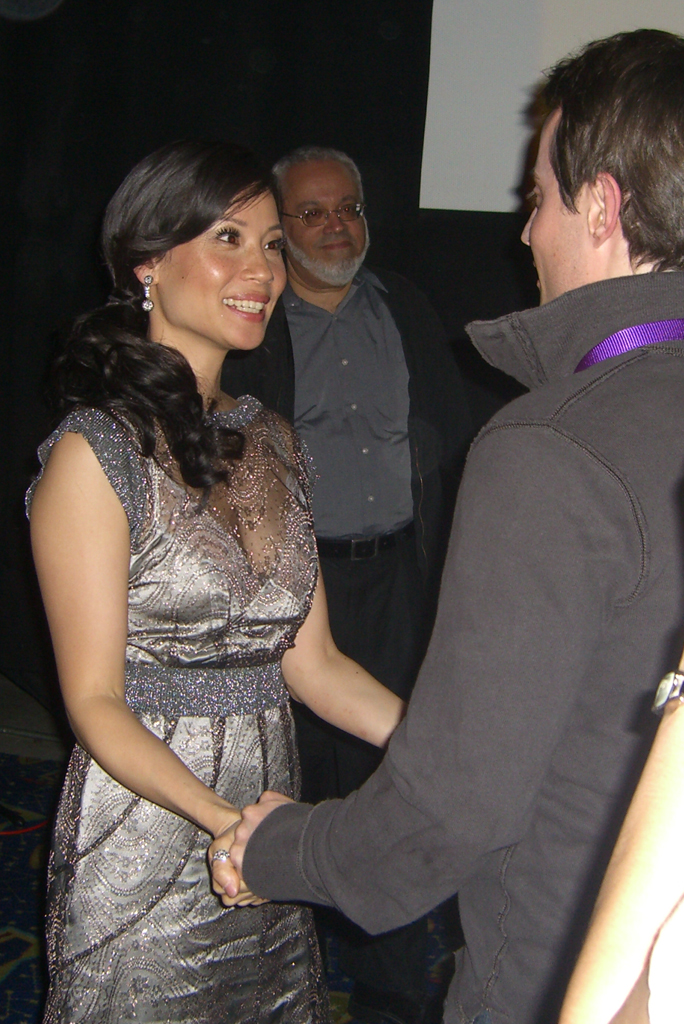 American actress Lucy Liu at the premiere screening of Watching the Detectives at the Tribeca Film Festival, 2007